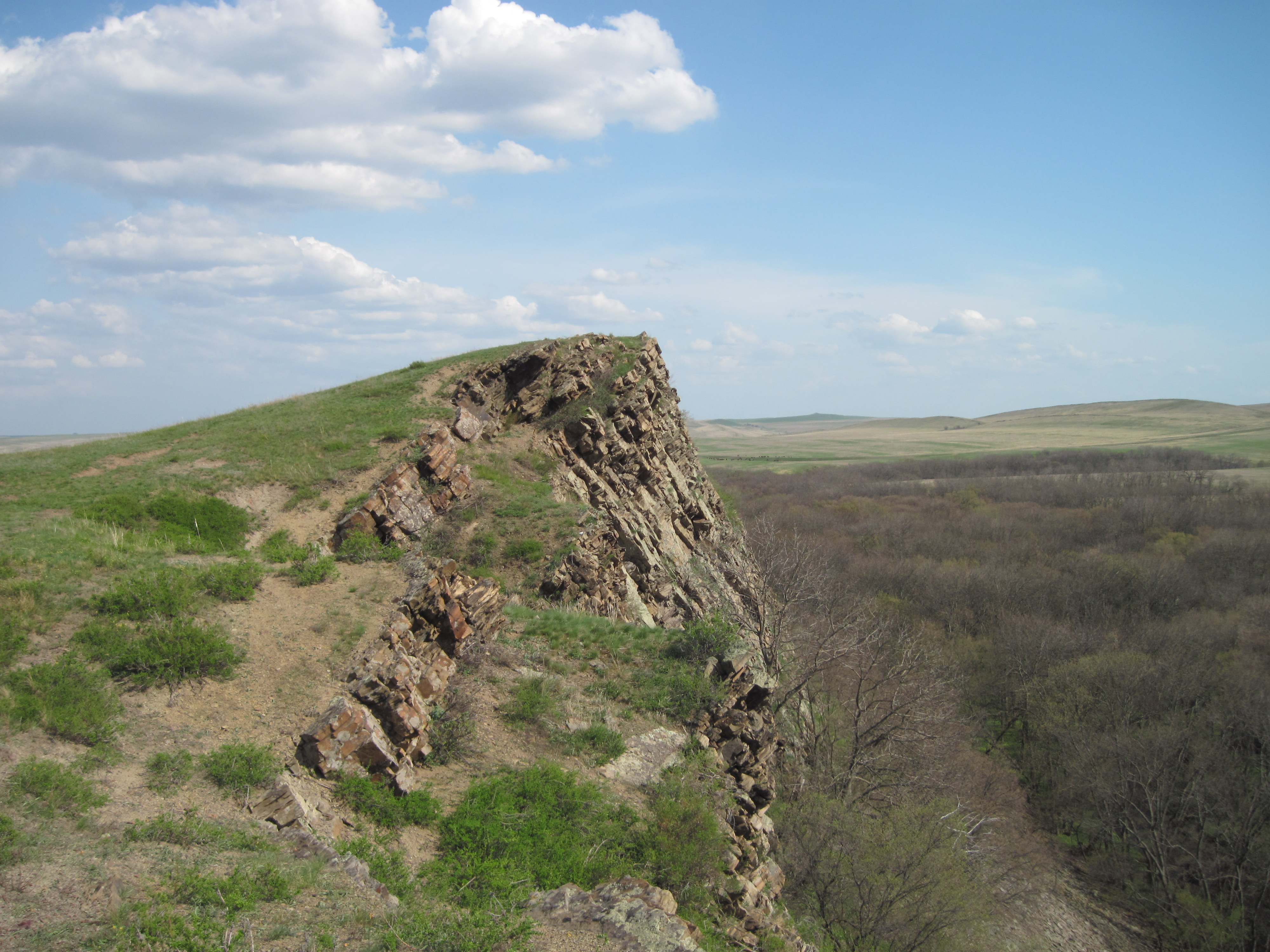 Korolivski skeli near Cheremshyne village